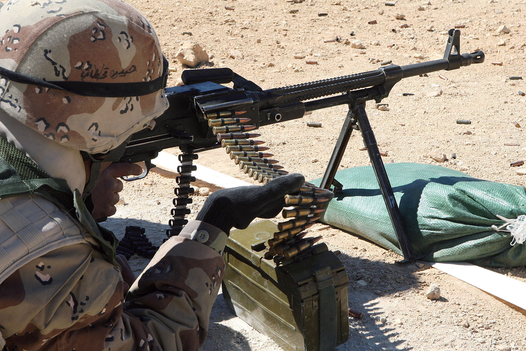 Summary CAMP YASSIR, AL ASAD, Iraq – Iraqi Army Soldiers spend a day at the range, firing the PKC machine gun as part of the School of Infantry. The 10-day course, which is fashioned after the Marine Corps’ version, is designed to train new Iraqi Soldiers in a variety of advanced infantry tactics. Photo by: Cpl. Adam Johnston Photo ID: 2007442010 Submitting Unit: 2nd Marine Division Photo Date:04/02/2007